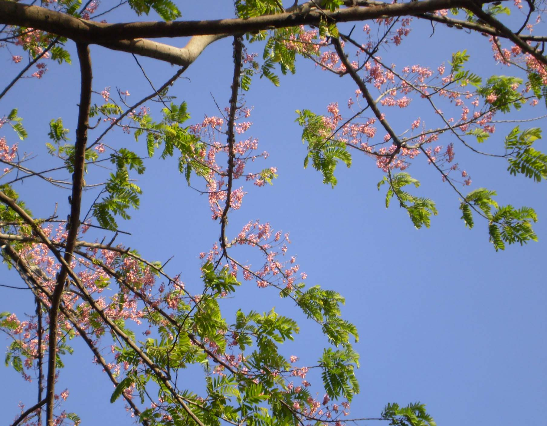 Flowers of Cassia grandis.